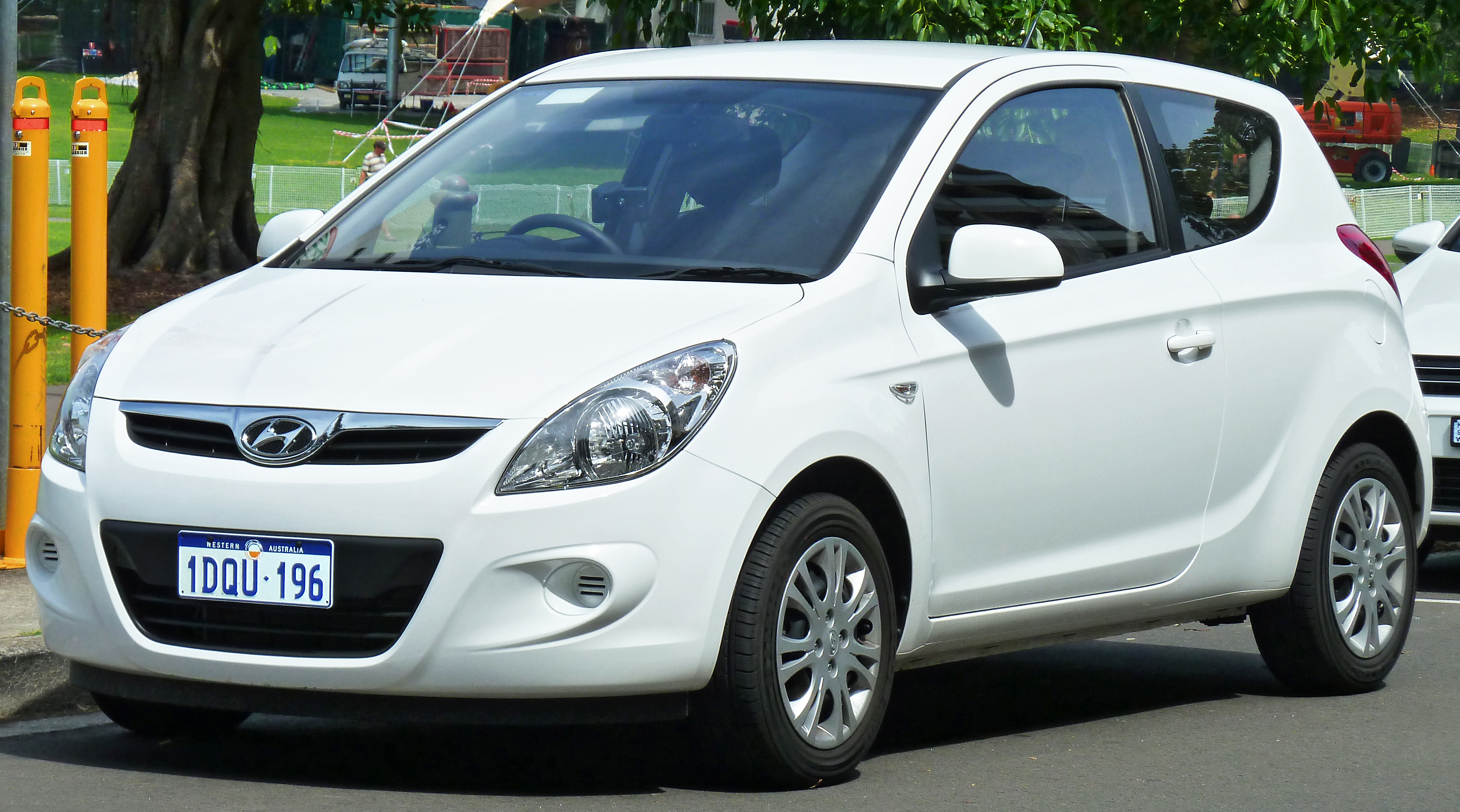 2010–2011 Hyundai i20 (PB) Active 3-door hatchback. Photographed in Sydney, New South Wales, Australia.